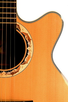 A photo I took of my personally owned Takamine Ltd 2001 guitar